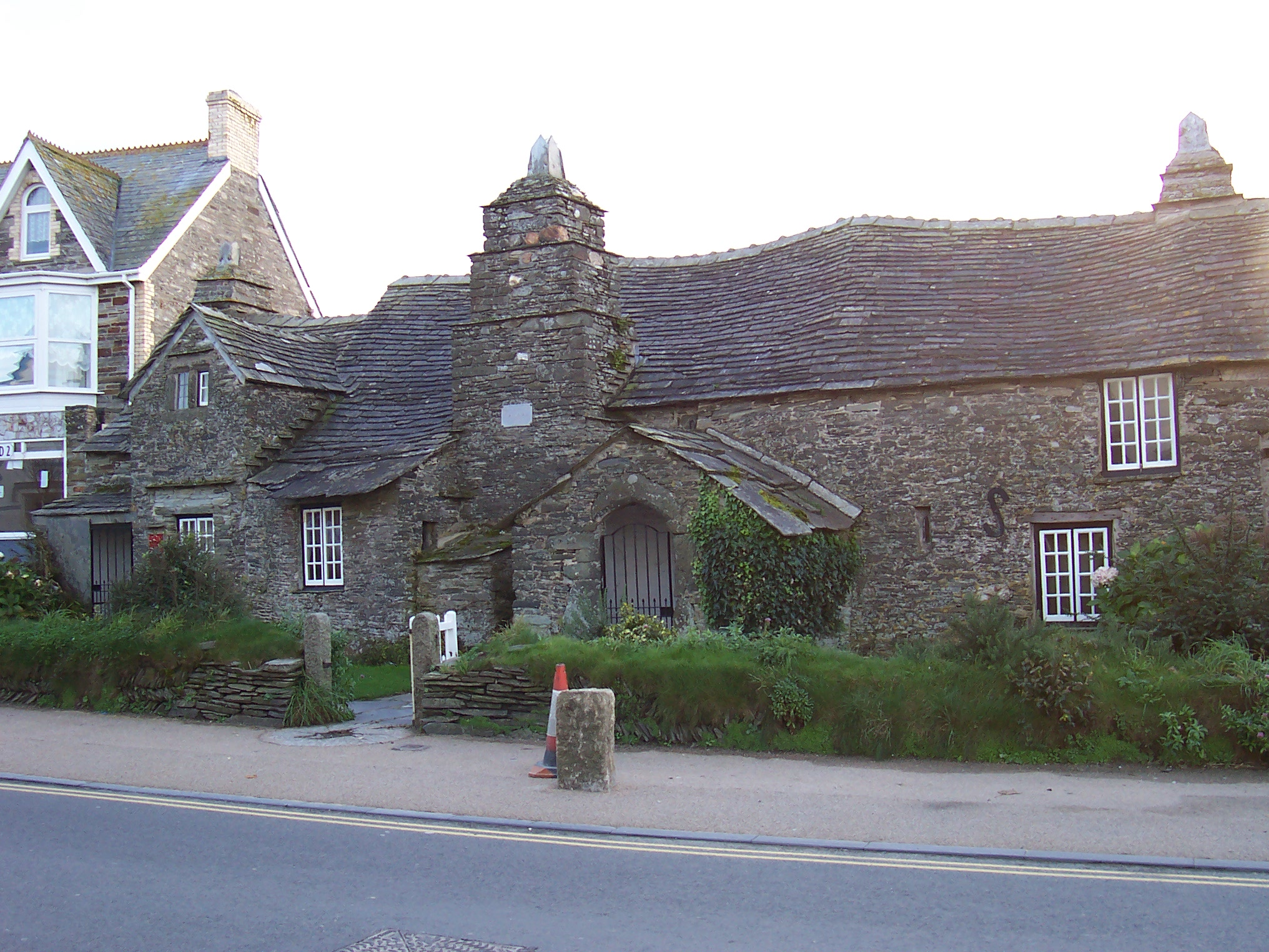 The Old Post Office in Tintagel, Cornwall.